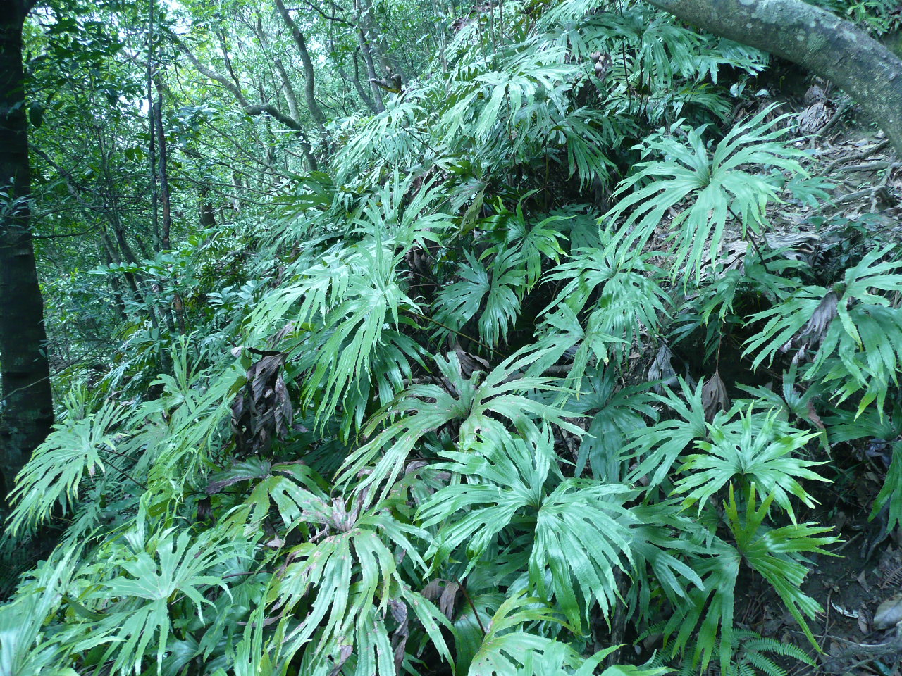 Dipteris conjugata in Taiwan